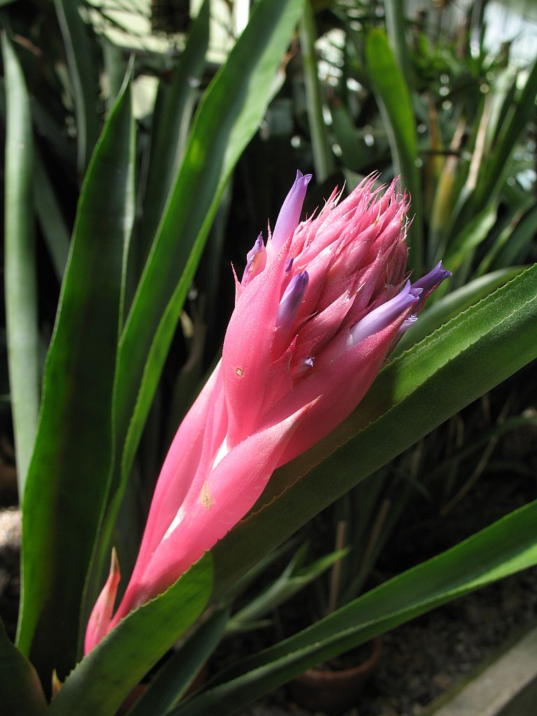 Ronnbergia allenii in cultivation at the Botanical Garden of Heidelberg, Germany.